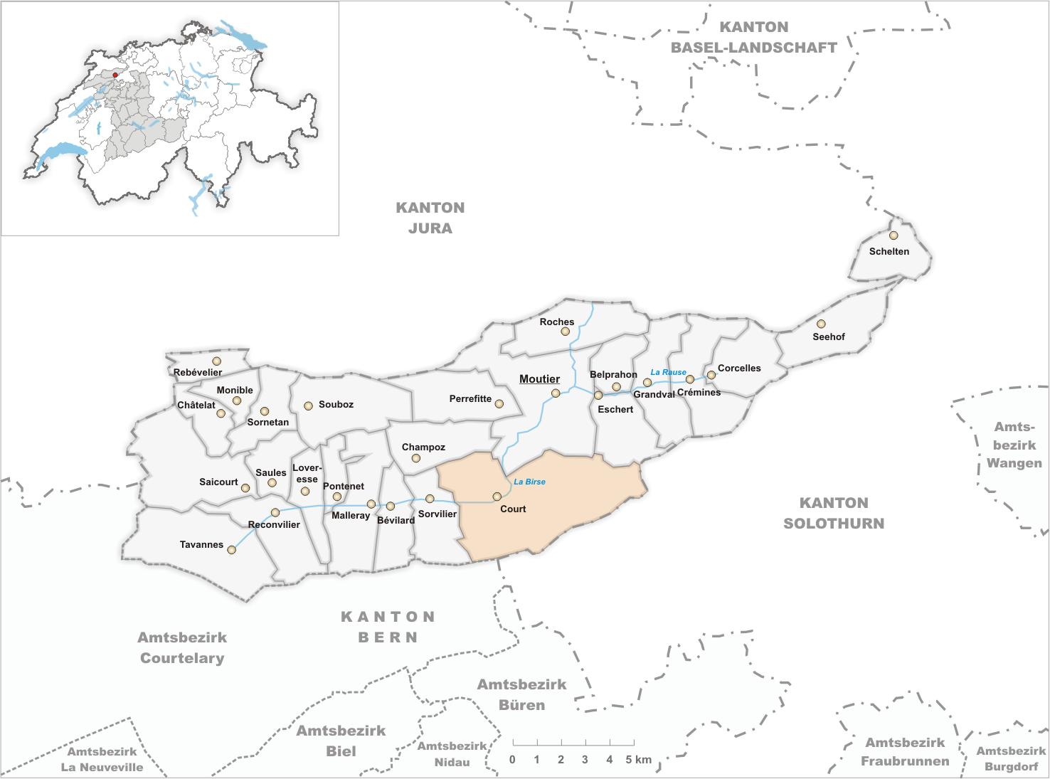 Municipality Court